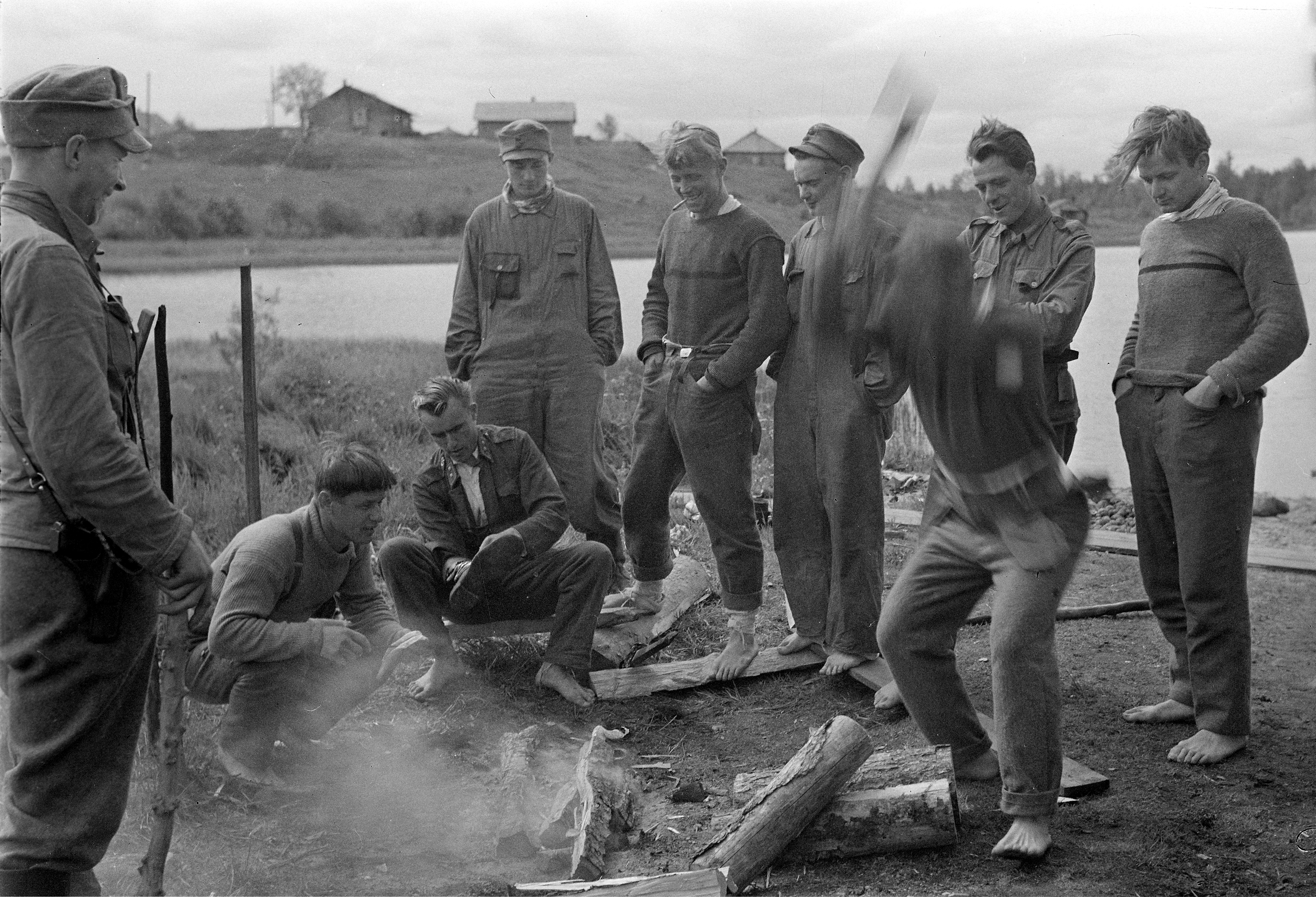 A Detached Battalion 4 long-range reconnaissance patrol commanded by Lieutenant Naapuri is waiting in Tšobino near Medvezhyegorsk for the withdrawal of the main Finnish forces so they could enter enemy-controlled territory to monitor troop movements and "stuff like that" (as phrased by the photographer).